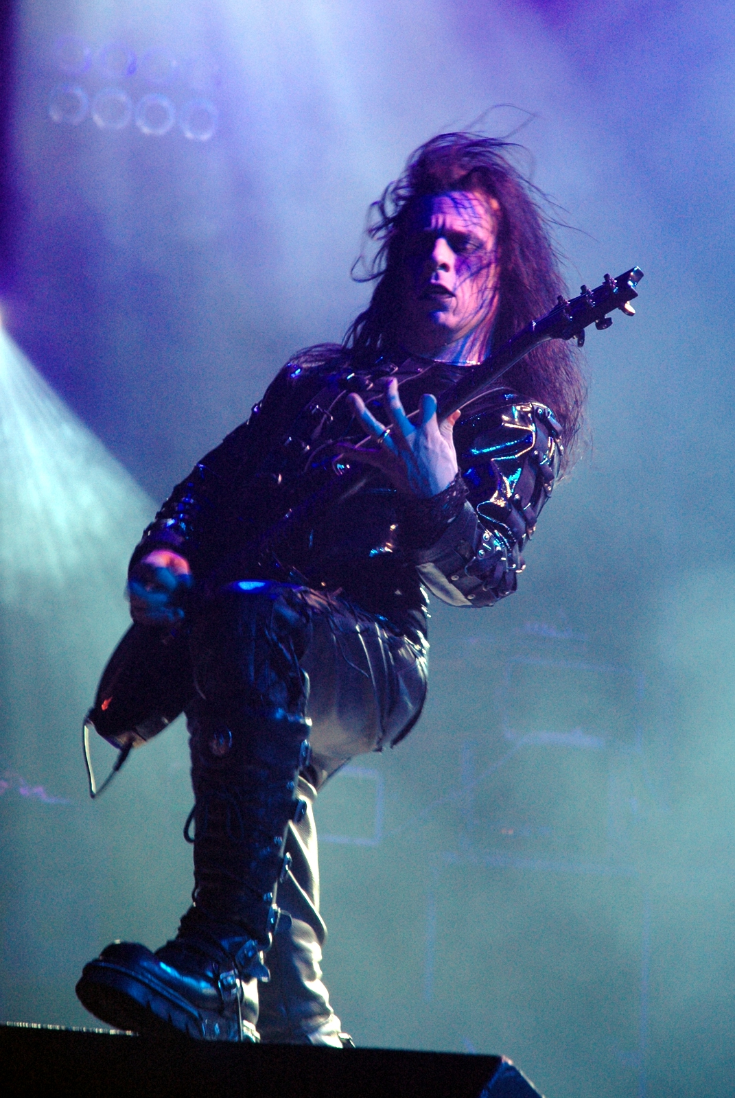 Paul Allender from Cradle of Filth at Metalmania Festival 2005 in Poland